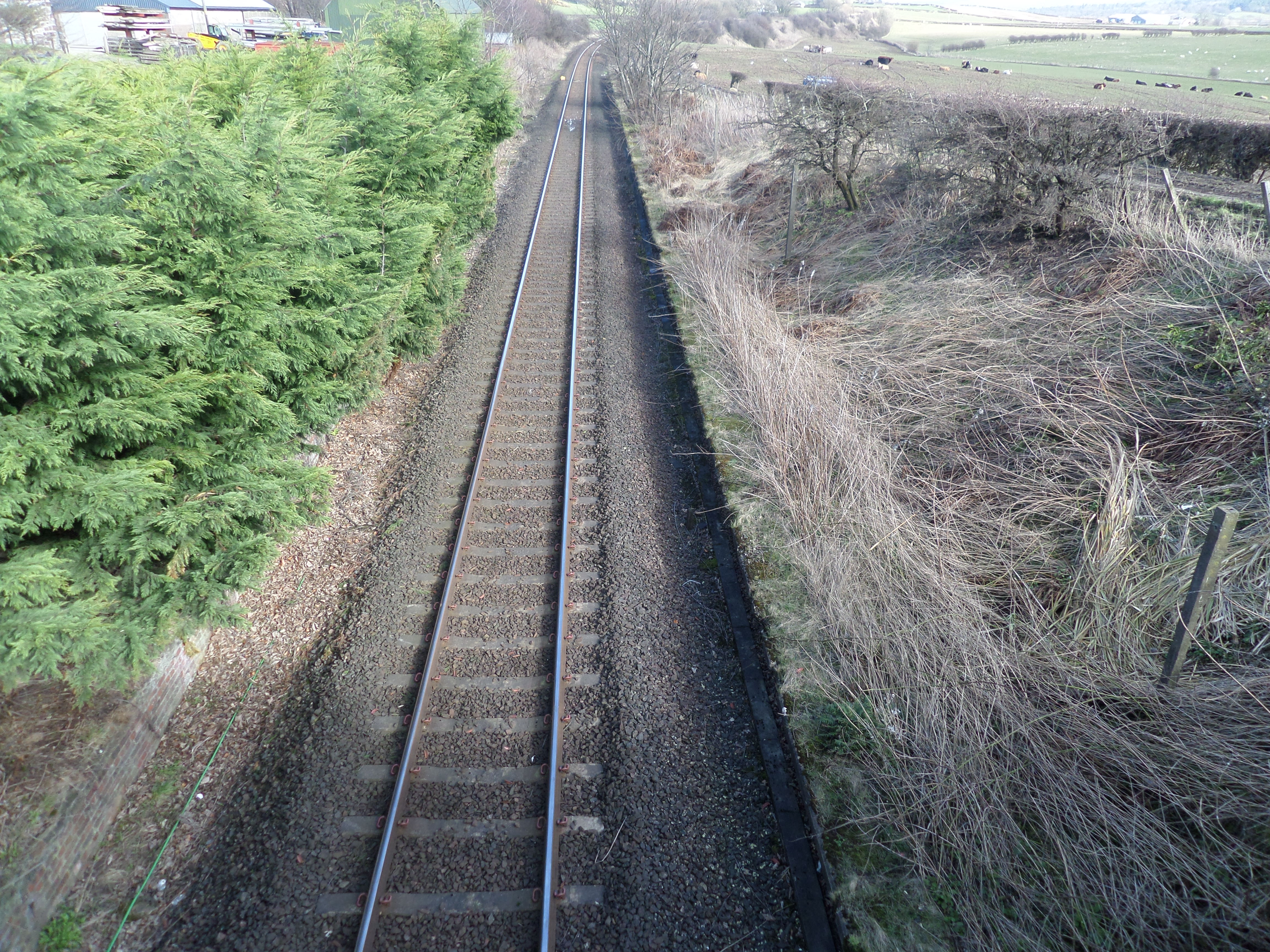 Grangestone Halt railway station, Detail - Girvan, South Ayrshire, Scotland. View towards Ayr.